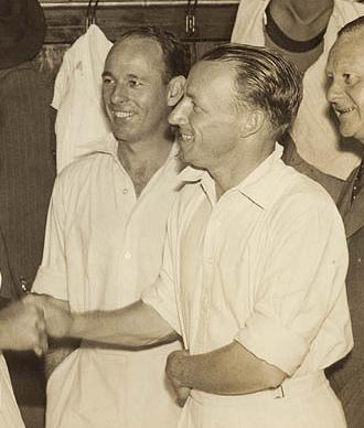 Jack Fingleton (l), Don Bradman (r)